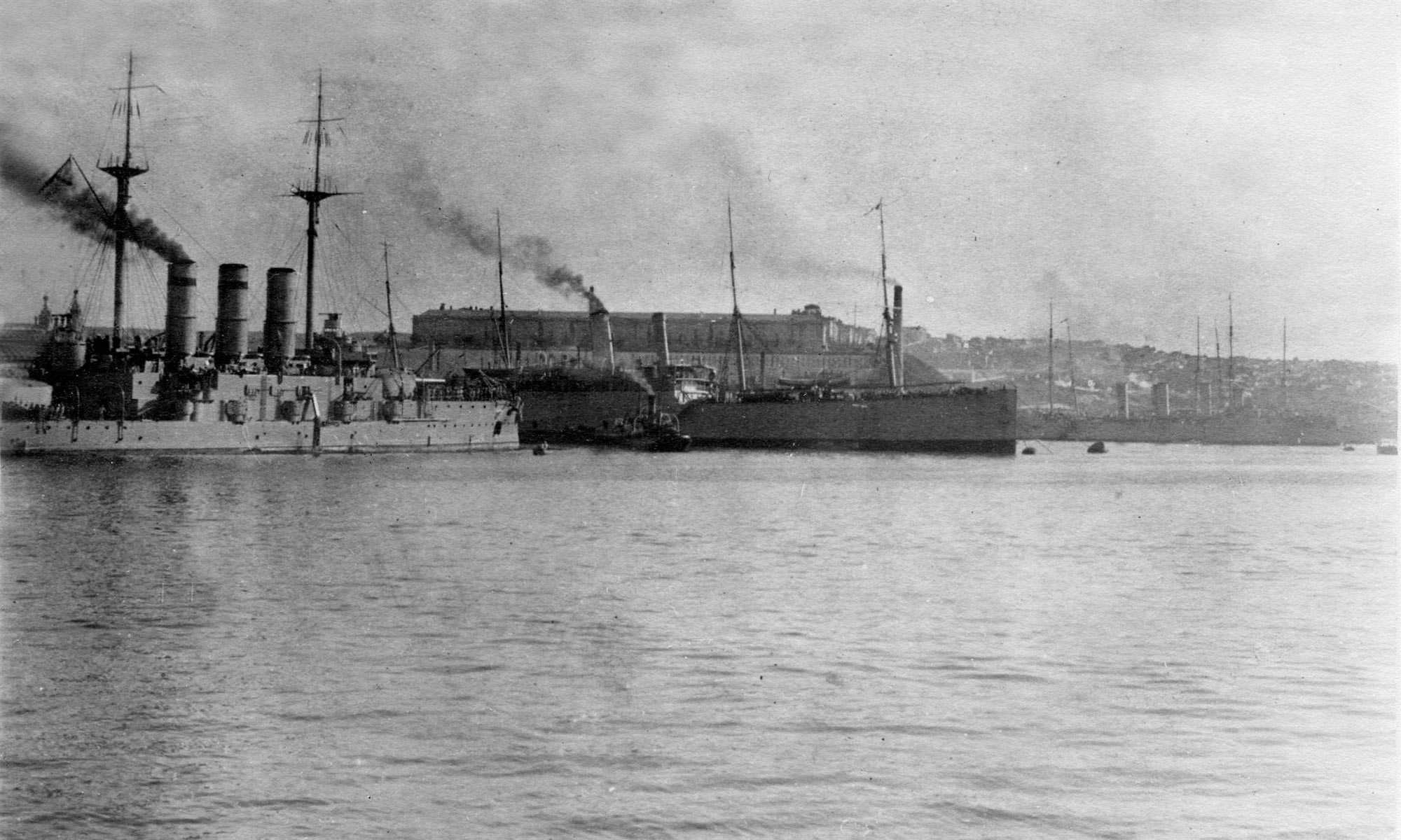 The Imperial Russian battleship Evstafiy, repair ship Kronstadt and a Kagul class cruiser (Pamyat' Merkuriya?) in Sevastopol.